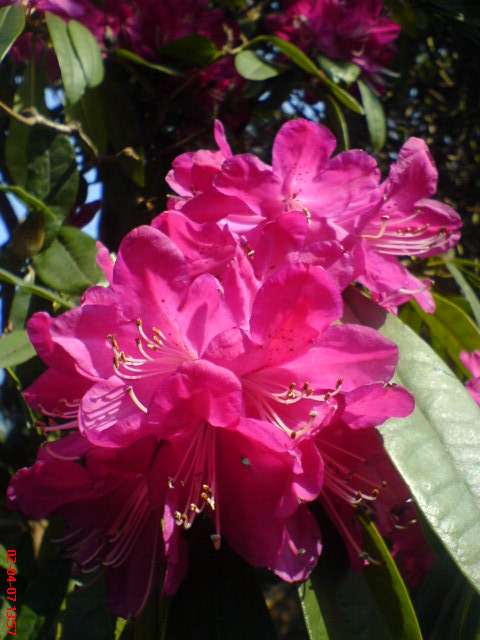 Closeup view of the Rhododendron cultivars flowers, in Kew Gardens, London, England.